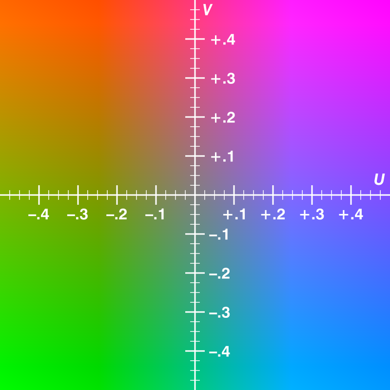 Example of U-V colour plane; Y-value = 0.5. Representation within sRGB colour gamut.